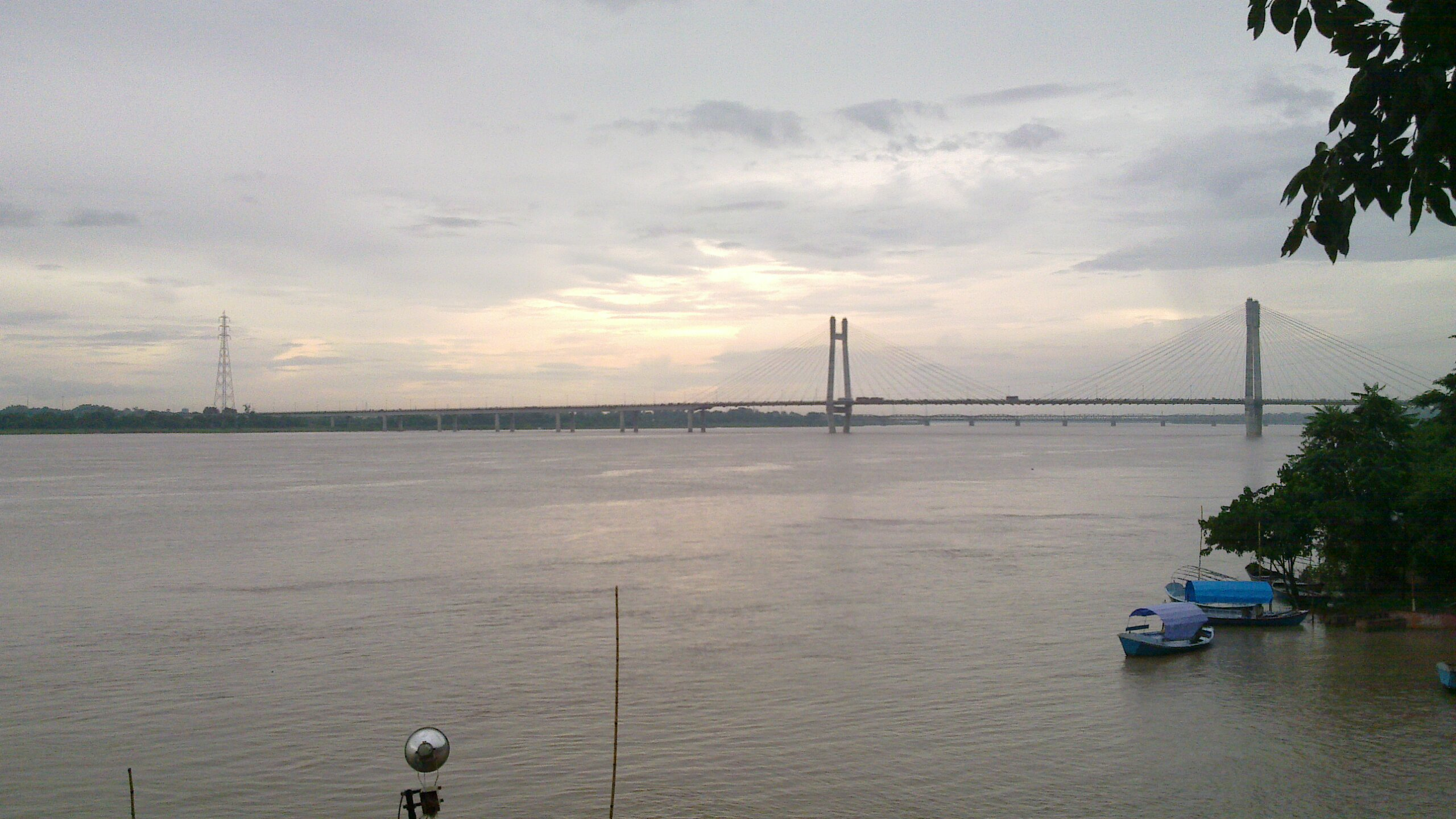 Yamuna river in Allahabad during the rainy season. The new Naini Bridge is is visible and beyond the bridge is the Sangam, the confluence of rivers Ganga and Yamuna.